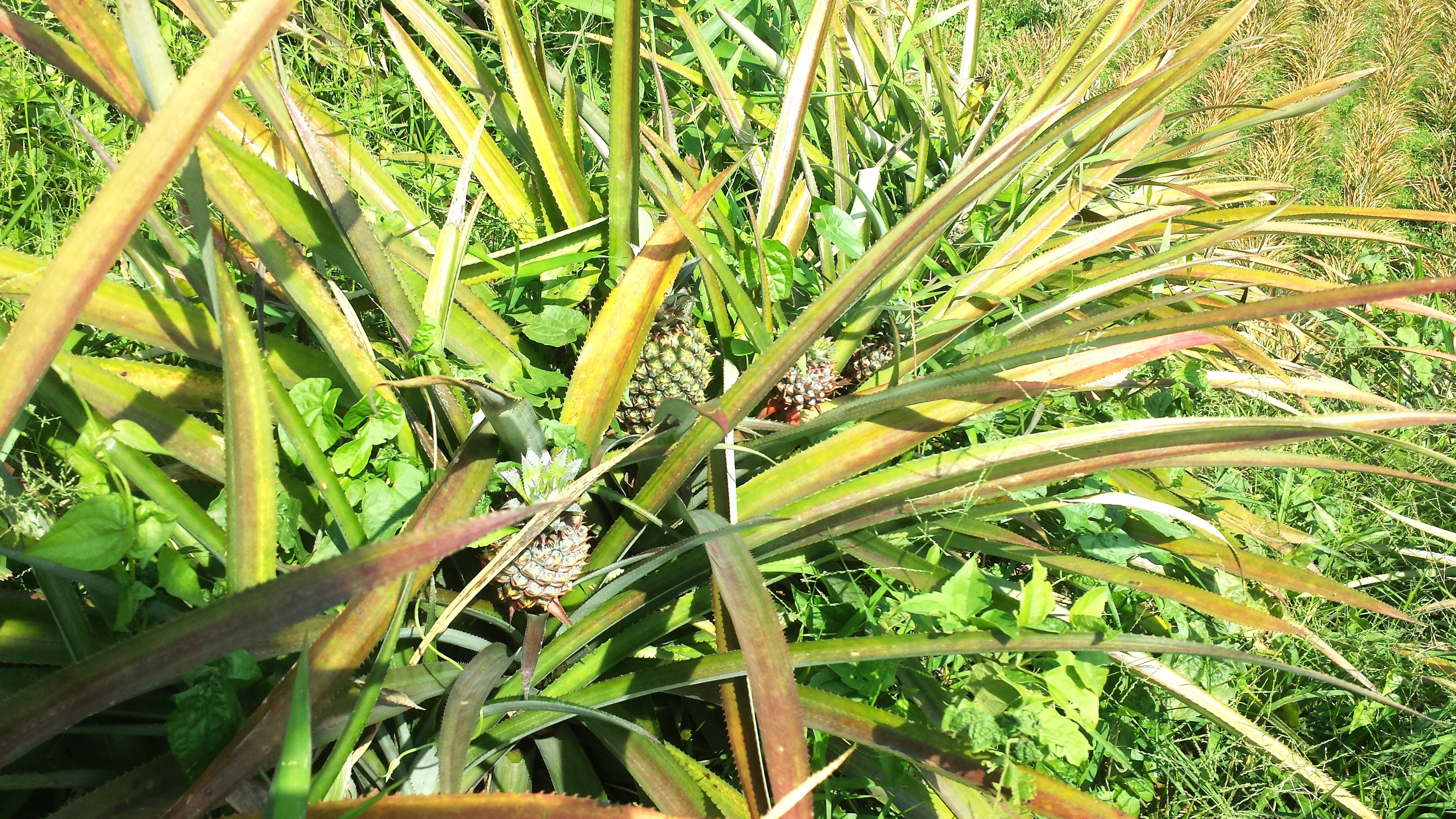 Pineapple plant Srimangal